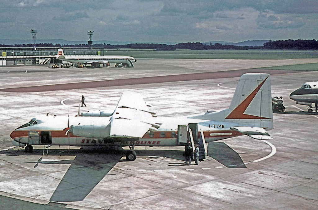 Handley Page HPR.7 Herald I-TIVE of Itavia at Manchester Airport in June 1966